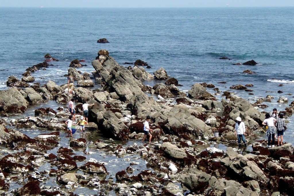 The Chikusho-iwa rock, part of the Nakaminato sandstone and mudstone layers at Hiraiso Coast in Hitachinaka City, Ibaraki Prefecture, Japan